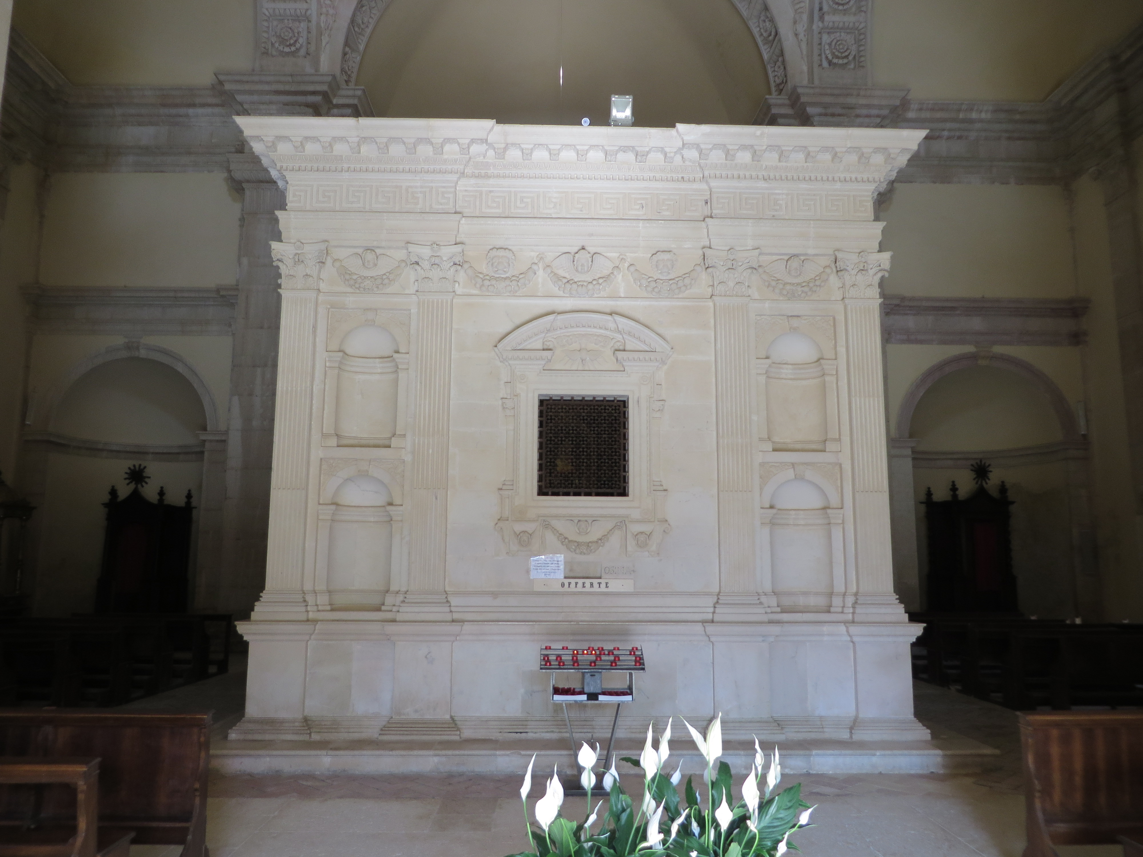 This is the interior "casetta" housing the miraculous statue of the Madonna of Macereto in Marche. Picking up the structure of both Santa Maria degli'Angeli in Assisi Inferiore and the Basilica of Loreto - it is a "Church within a Church"